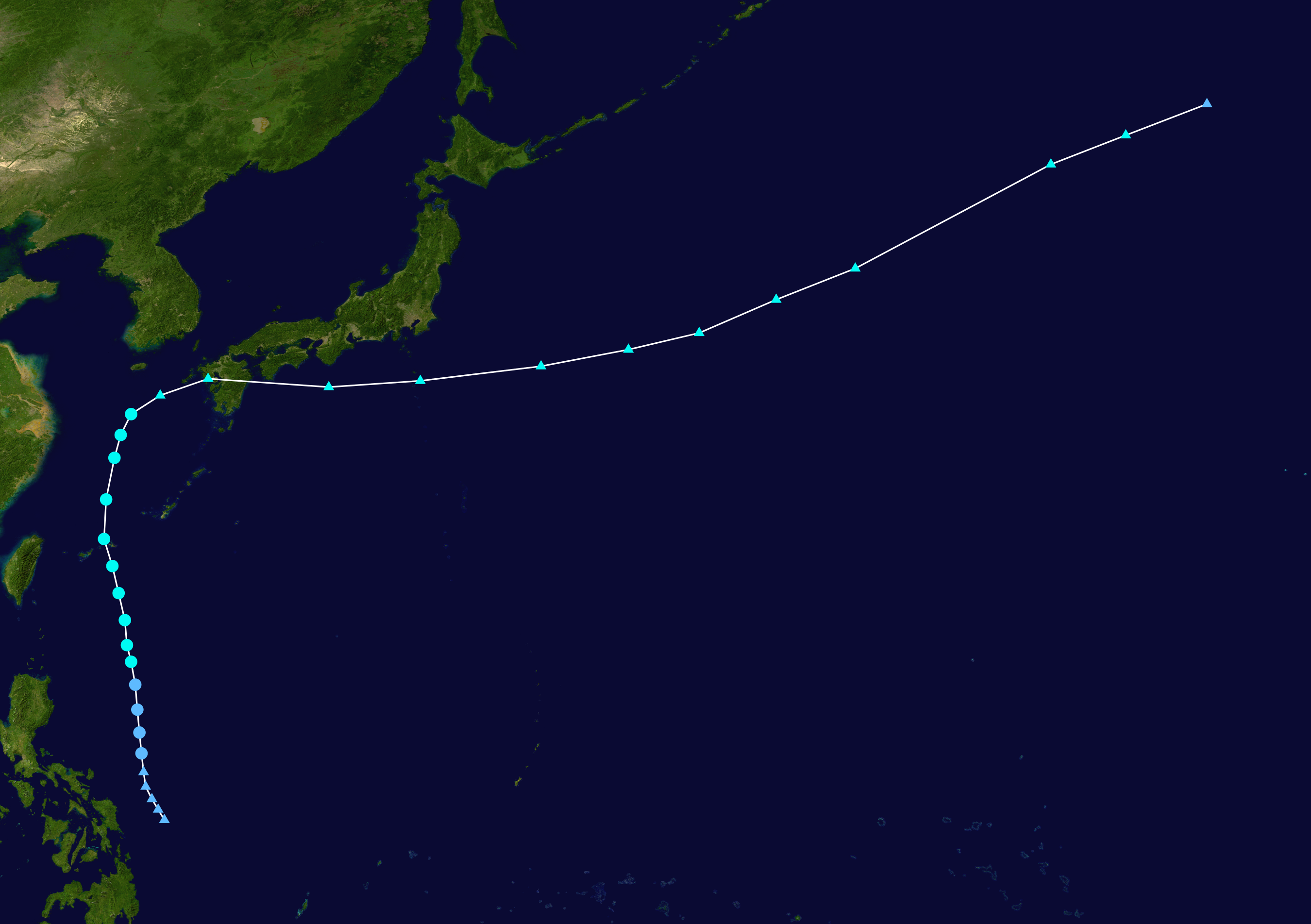 Track map of Tropical Storm Leepi of the 2013 Pacific typhoon season. The points show the location of the storm at 6-hour intervals. The colour represents the storm's maximum sustained wind speeds as classified in the Saffir–Simpson scale (see below), and the shape of the data points represent the nature of the storm, according to the legend below. Saffir–Simpson scale Tropical depression≤38 mph≤62 km/h Category 3111–129 mph178–208 km/h Tropical storm39–73 mph63–118 km/h Category 4130–156 mph209–251 km/h Category 174–95 mph119–153 km/h Category 5≥157 mph≥252 km/h Category 296–110 mph154–177 km/h Unknown Storm type Tropical cyclone Subtropical cyclone Extratropical cyclone / Remnant low / Tropical disturbance / Monsoon depression